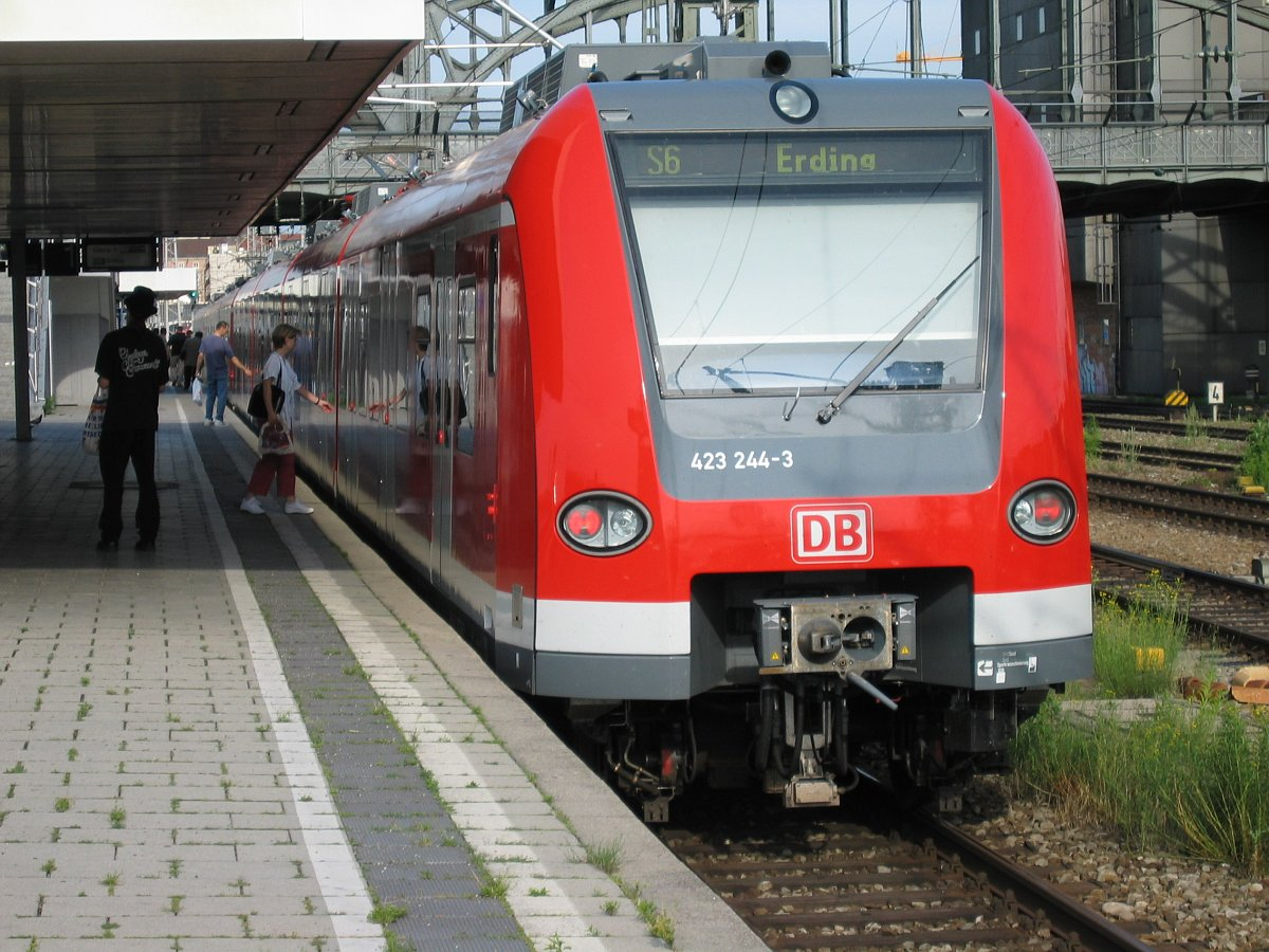 S-Bahn München (Munich's suburban rail), ET 423 244